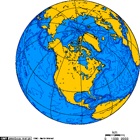 Orthographic projection centred over Churchill, Manitoba, Canada